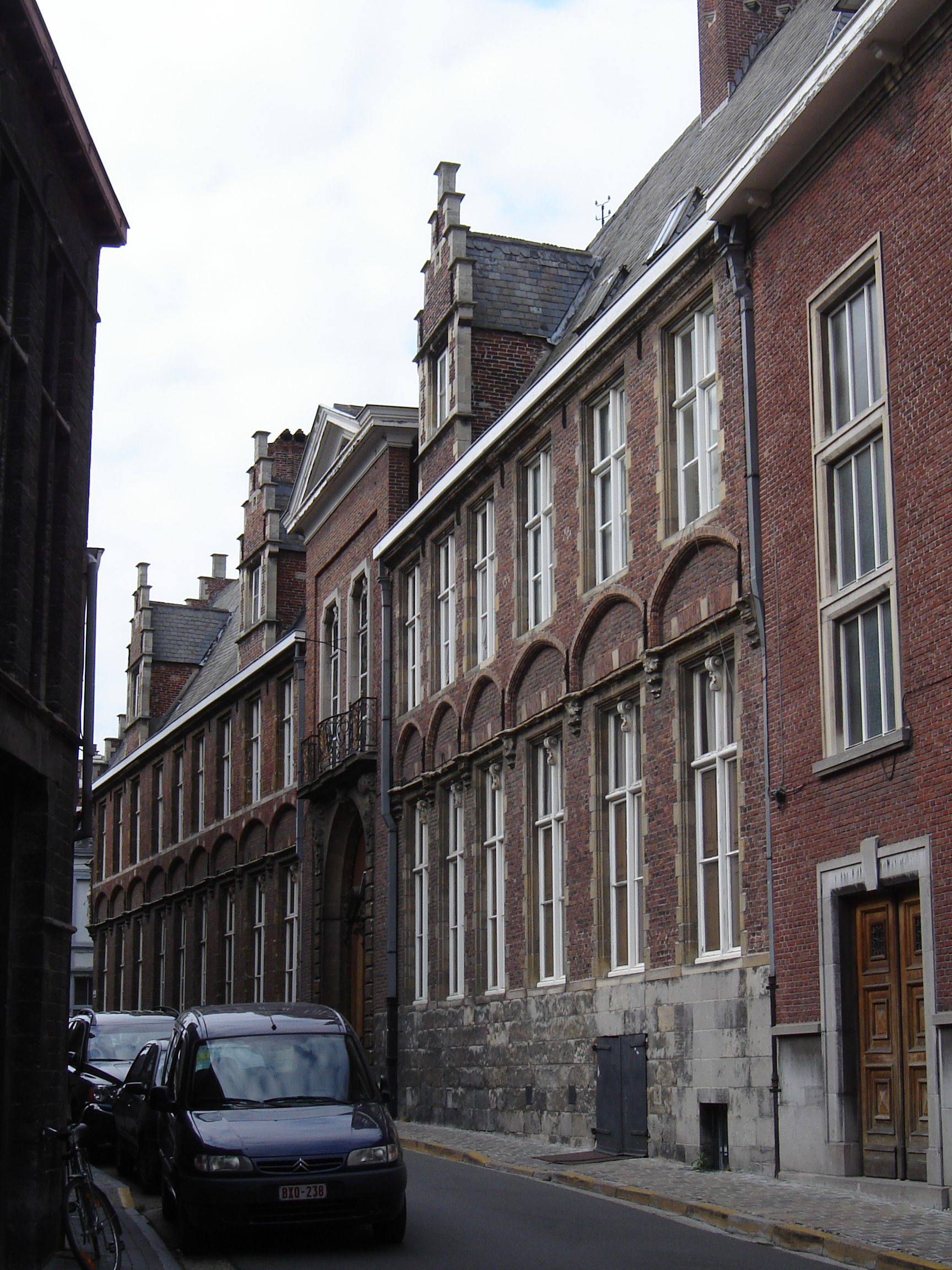 "Hotel Vanden Meersche" in Gent. South façade. (Nederpolder 1). Left wing: 1547. Gate and right wing: 1738. Gent, East Flanders, Belgium